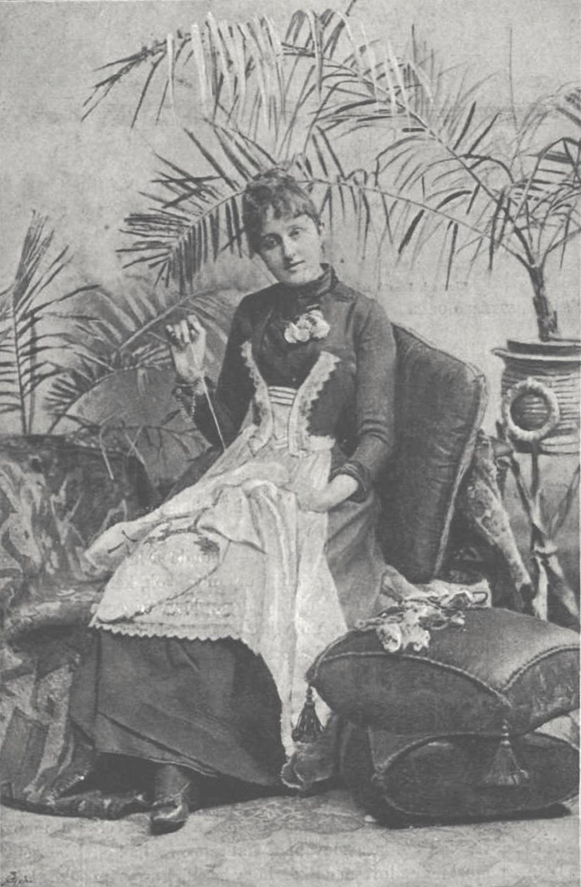 Róza Jókai